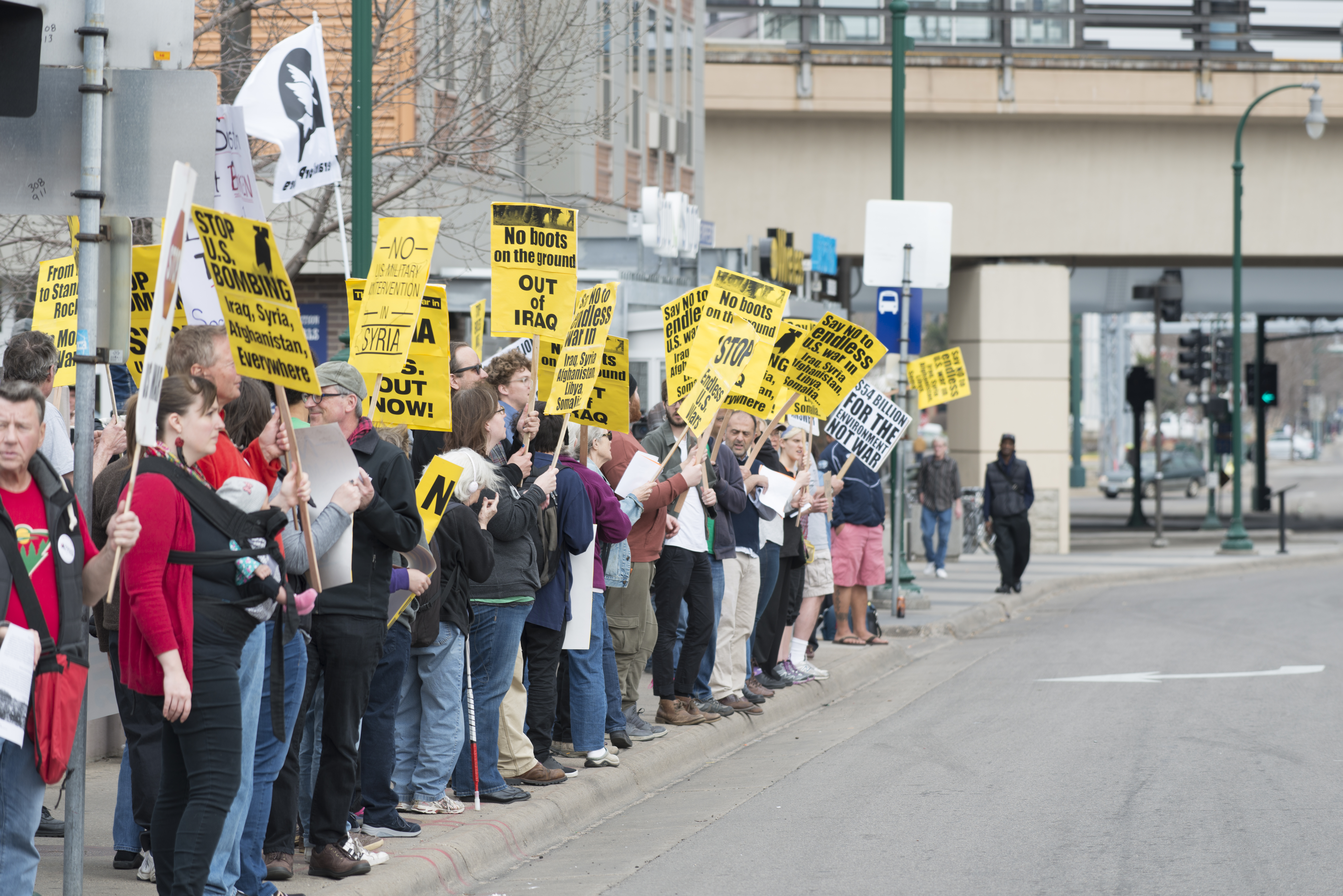 Minneapolis, Minnesota April 8, 2017 About 200 people gathered on Lake Street in south Minneapolis to protest recent bombing attacks in Syria ordered by Republican President Donald Trump. 2017-04-08 This is licensed under the Creative Commons Attribution License. Give attribution to: Fibonacci Blue